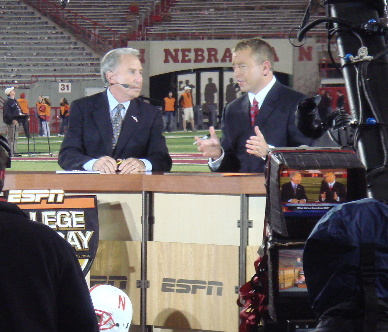 ESPN College GameDays Lee Corso (left) and Kirk Herbstreit (right) in Lincoln, Nebraska: home of the Nebraska Cornhuskers football team.